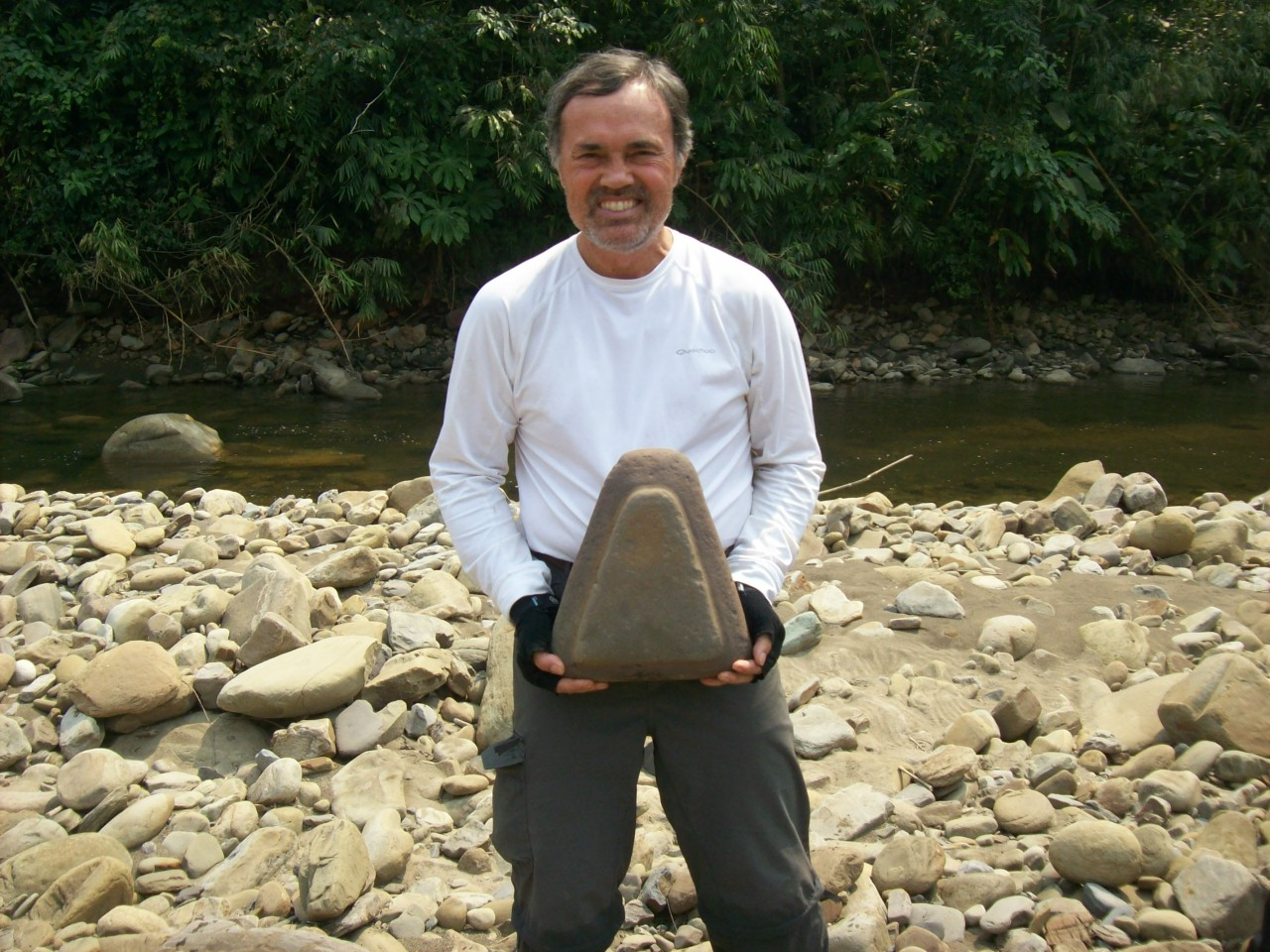 Sixto Paz Wells at Quebrada del Paititi, Peru, August 2010